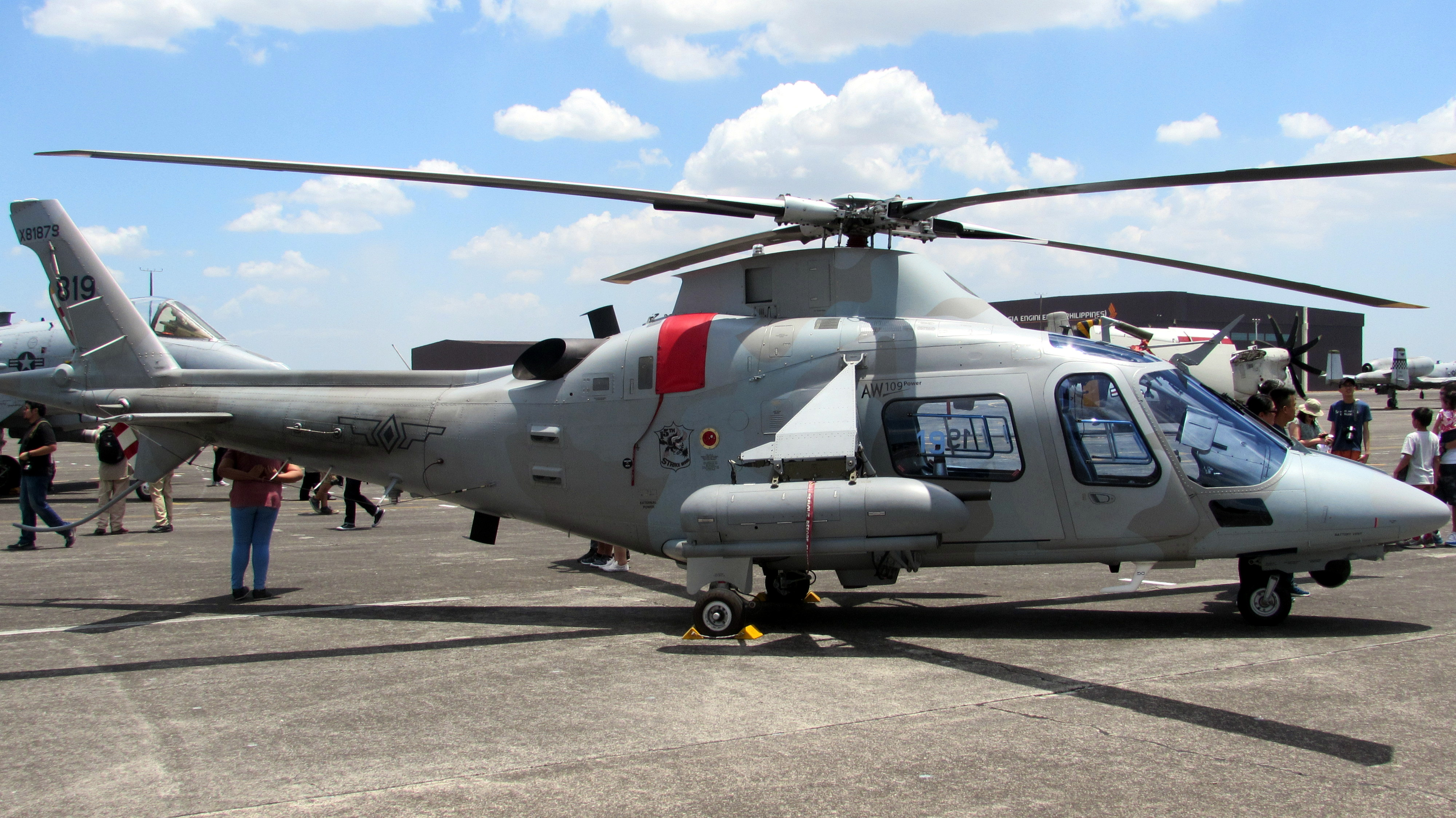 Side view of the Philippine Air Force's AW109 Helicopter. Photo taken during the Static Aircraft Display Day of the Balikatan 2016 Exercise.